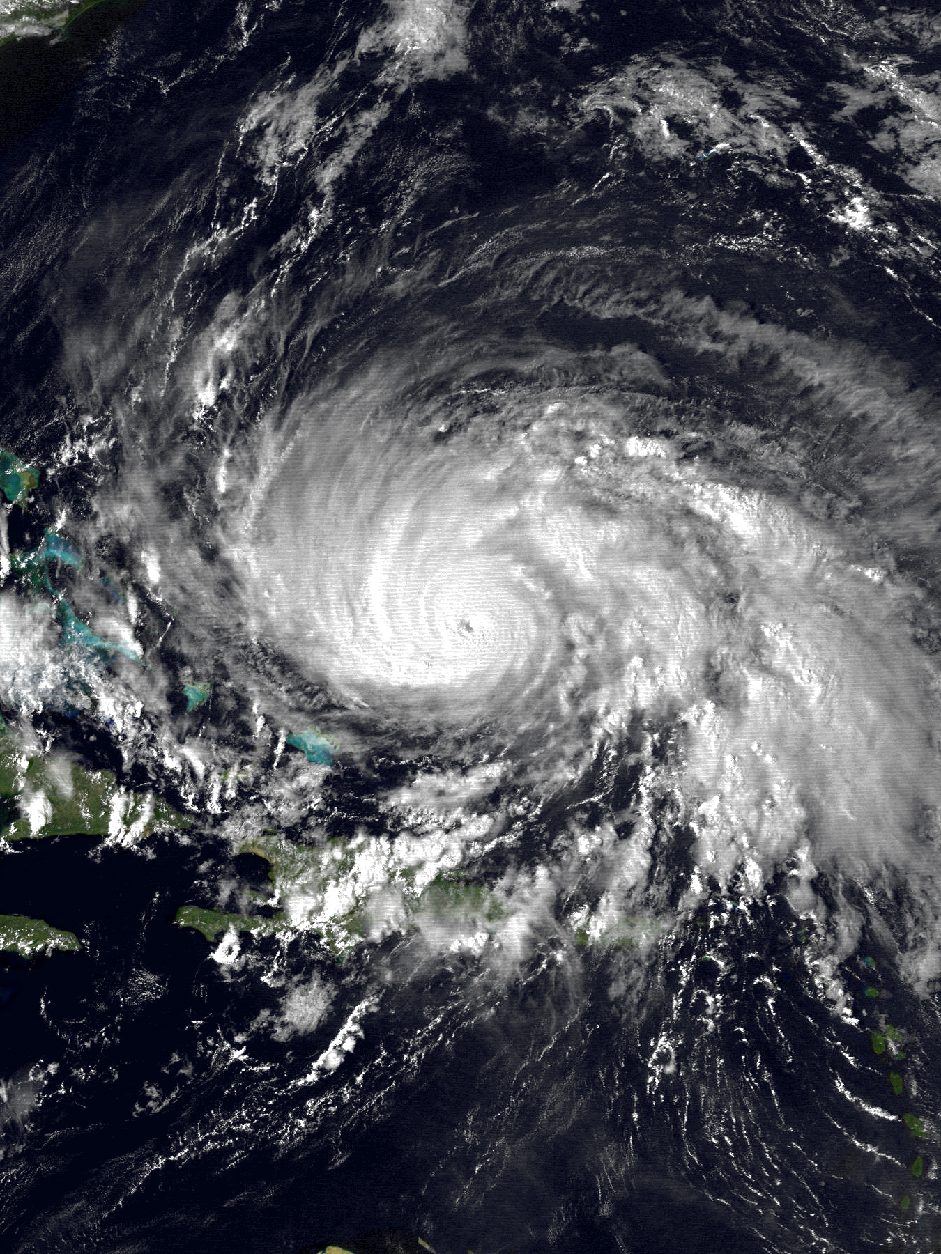 Hurricane Gloria on September 24, 1985